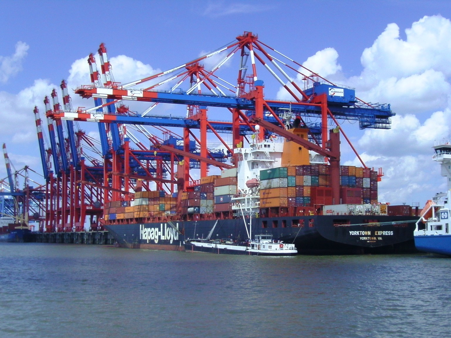 The container ship Yorktown Express at the container terminal of Bremerhaven in Germany